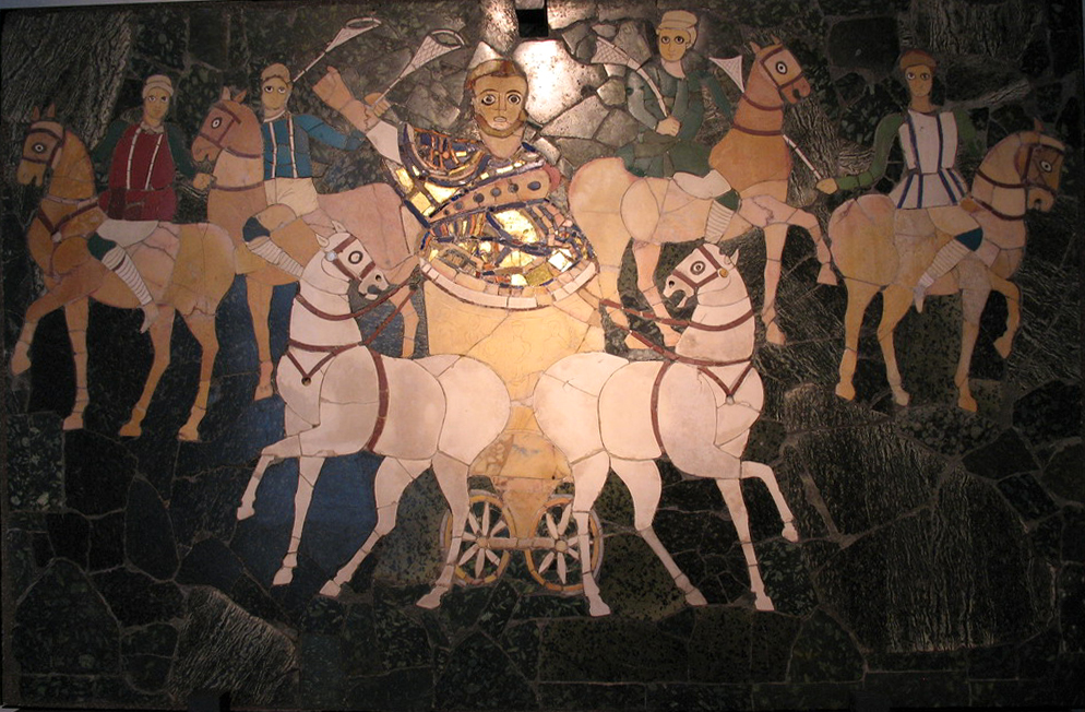 Opus sectile panel. Roman artwork, first half of the 4th century. From the basilica of Junius Bassus on the Esquiline Hill.